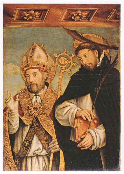 Panel painting of Saint Peter Martyr and (probably) Saint Evasio